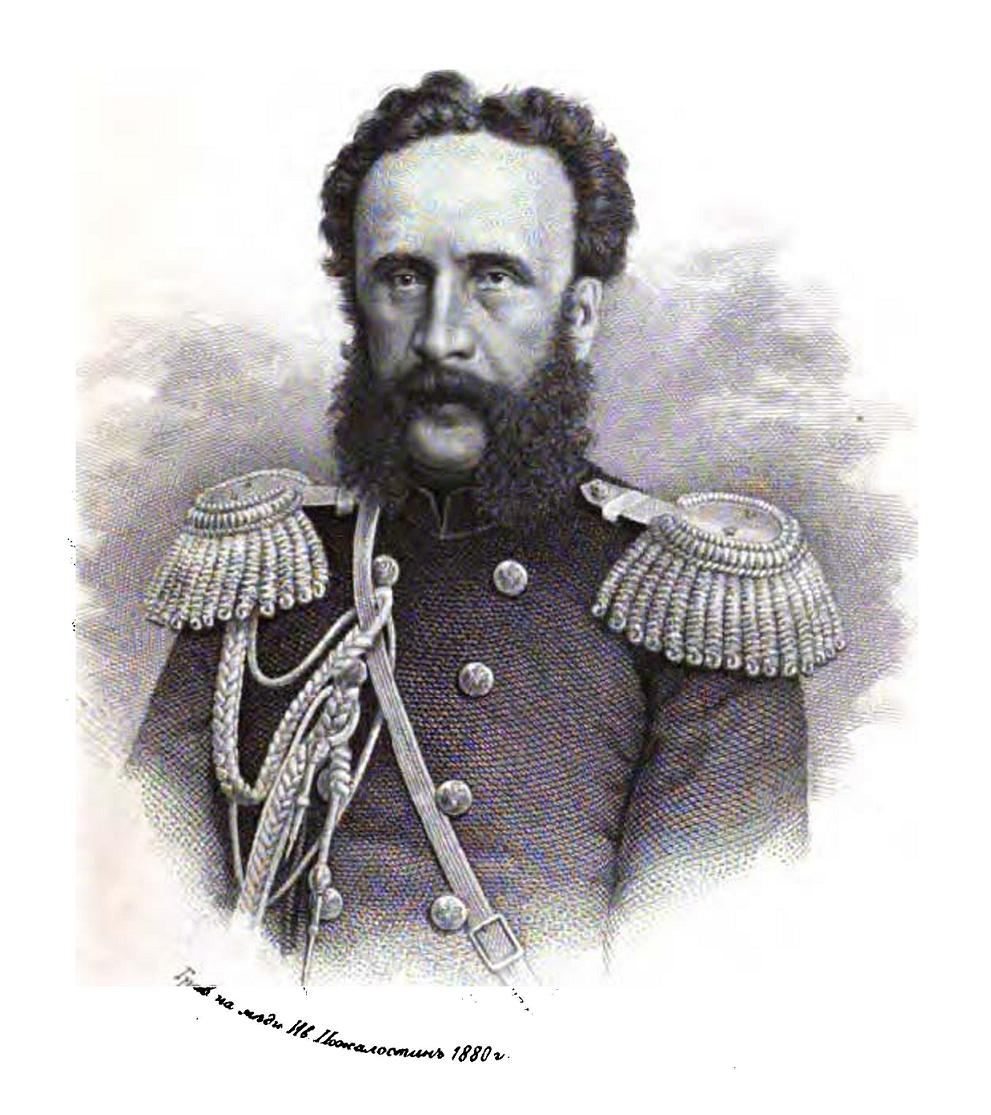 Engraving by Ivan Pozhalostin, a portrait of Peter Uslar, Russian linguist.